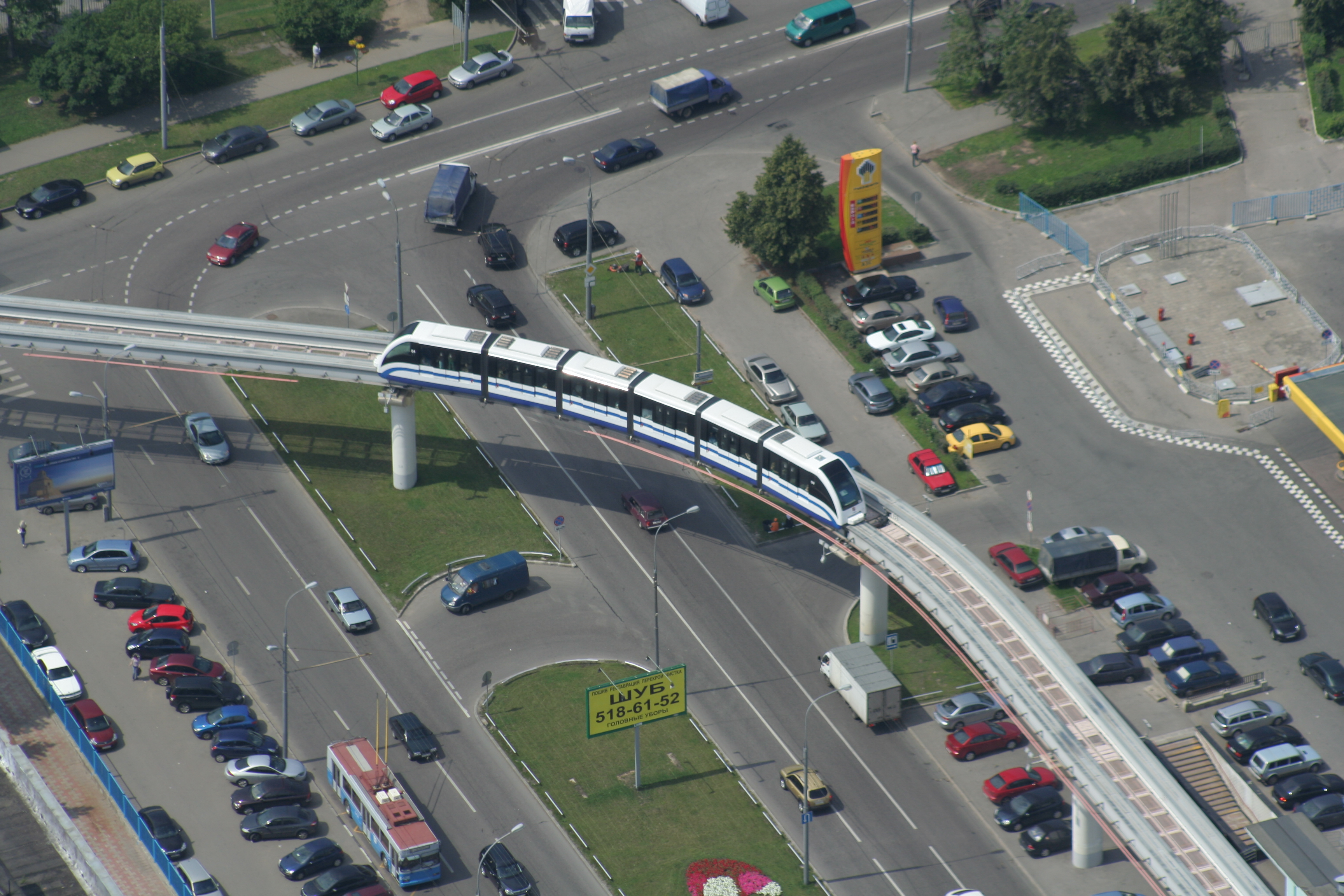 Views from the observation deck of the Ostankino Tower, Moscow.